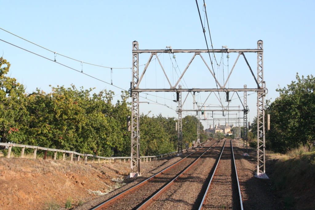 Craigieburn railway line, Melbourne near Ascot Vale railway station, Melbourne, looking away from the city